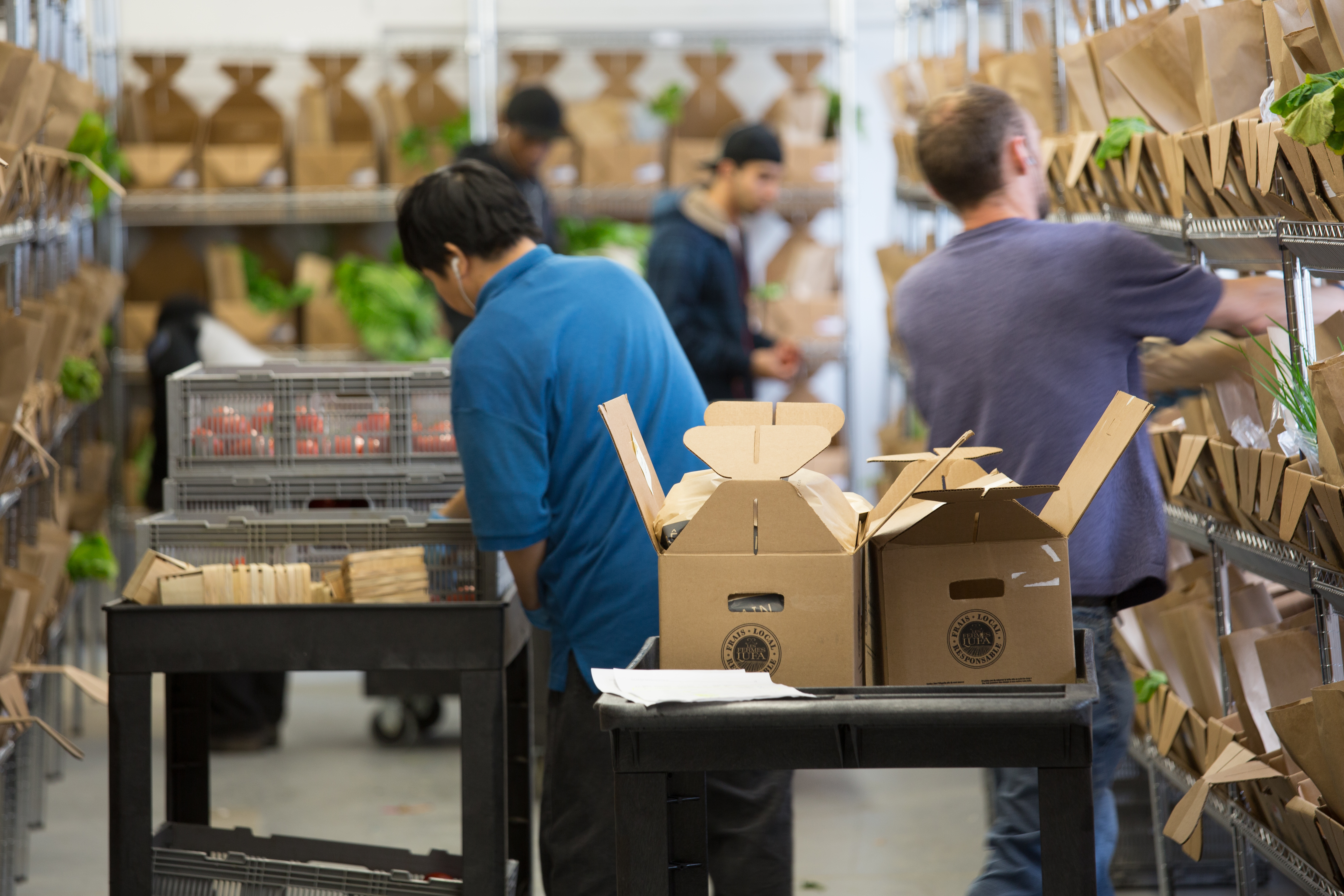 Pick and pack team at Lufa Farms, the world’s first commercial rooftop greenhouses. Montreal neighborhood of Ahuntsic-Cartierville.